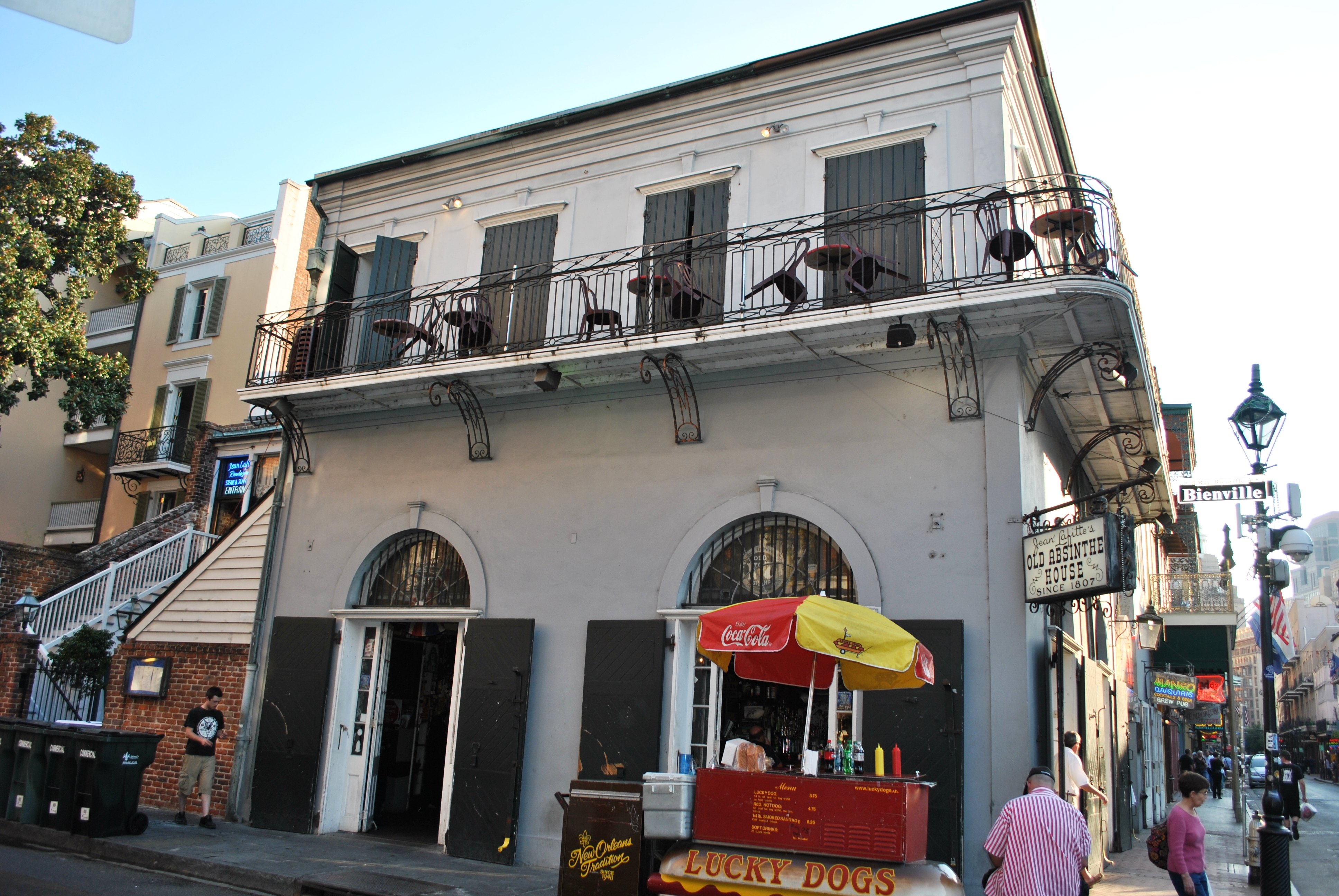 Vieux Carre Historic District: the Old Absinthe House.